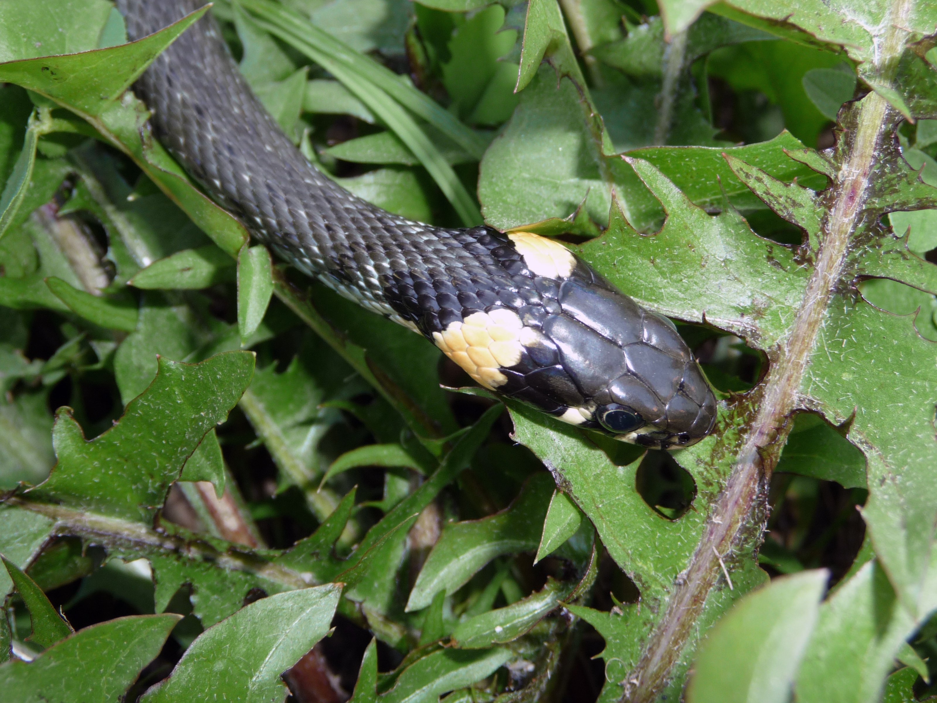 The young grass snake (Natrix natrix), Ukraine.